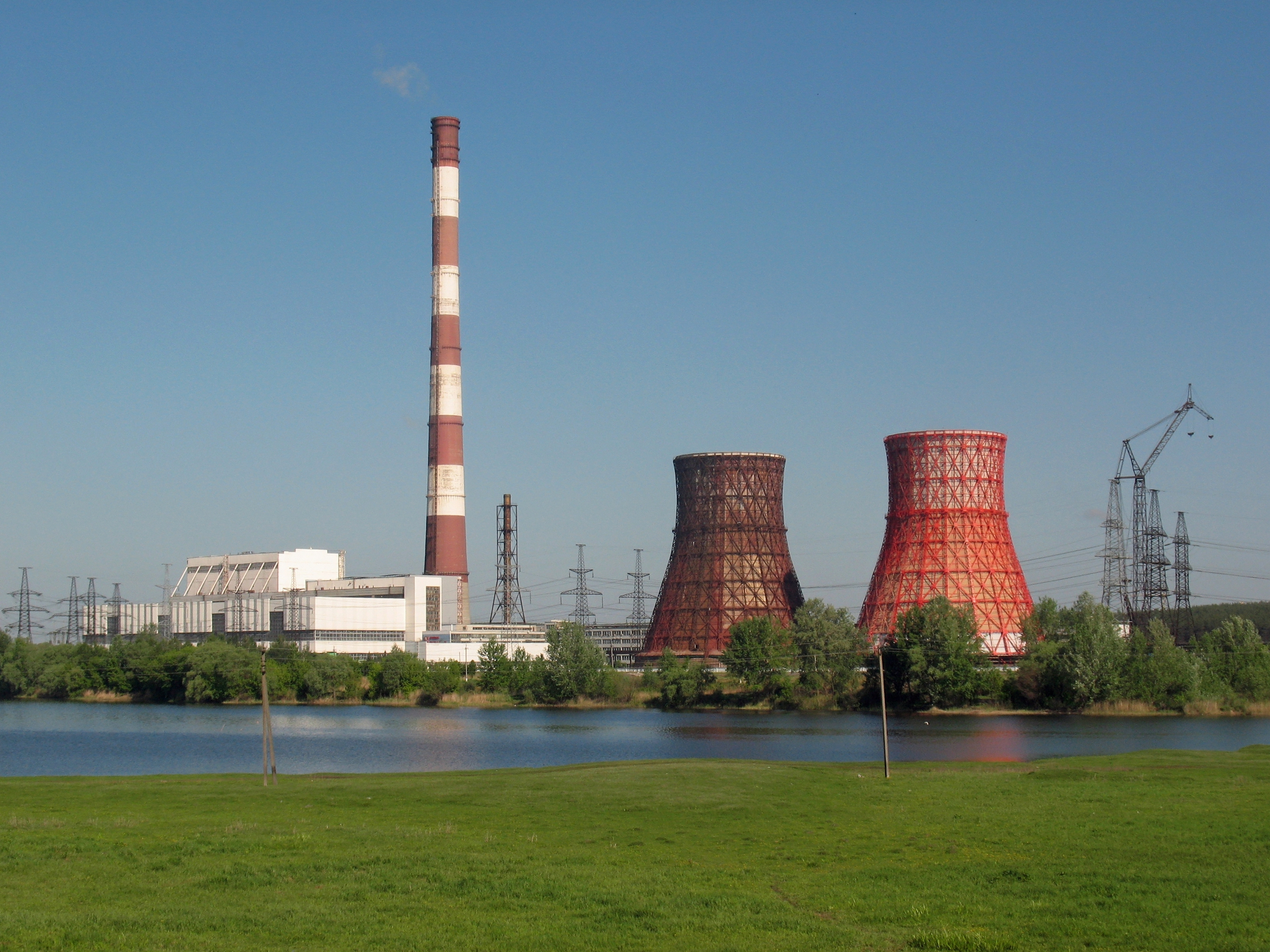 Udy River in Pesochin. Chimney (h=330m) and two hyperboloid cooling towers (h over 100m) on Kharkov Pover Station #5 in Pesochin.